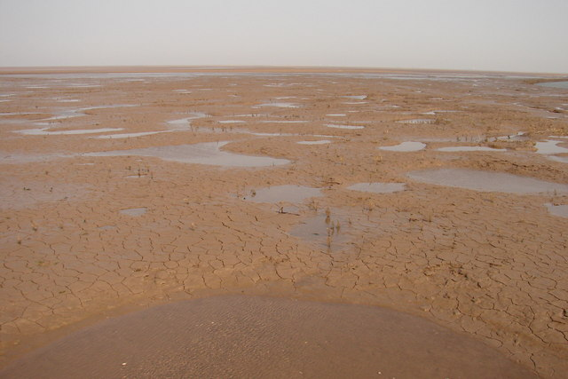 Cracks in the mud Drying out patches in the mudflats near Horseshoe Point. Note the sparse vegetation and myriad of pools.